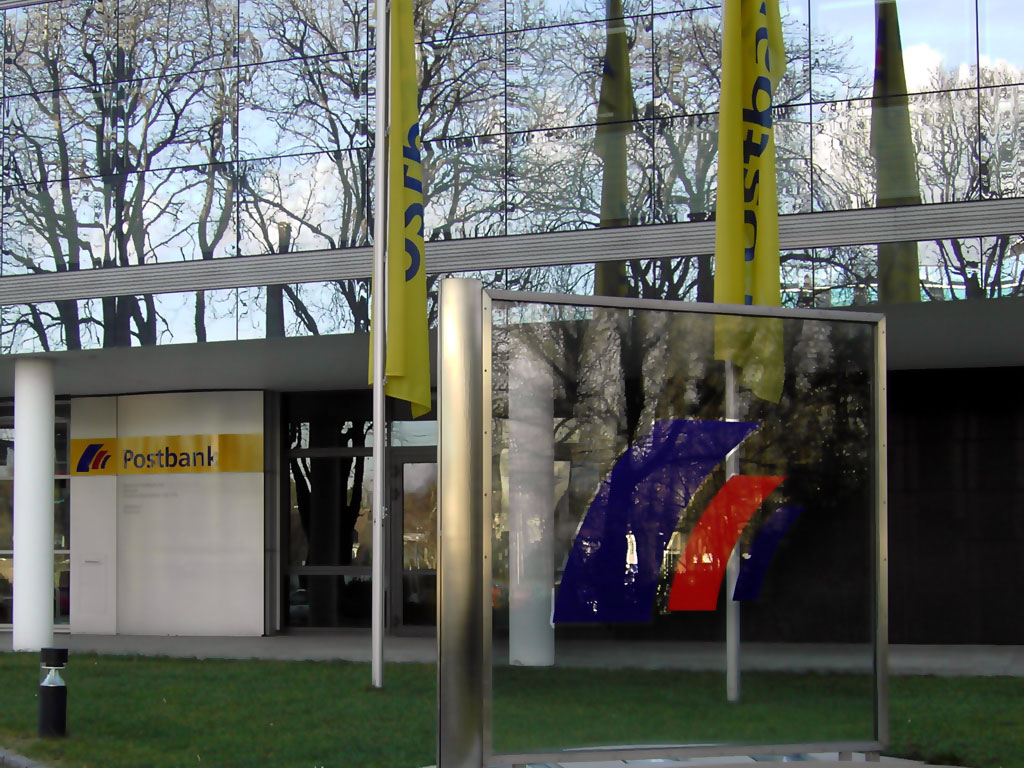 headquartiers of Postbank, owned by Deutsche Post